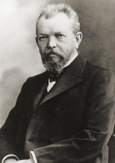 Anton von Rieppel